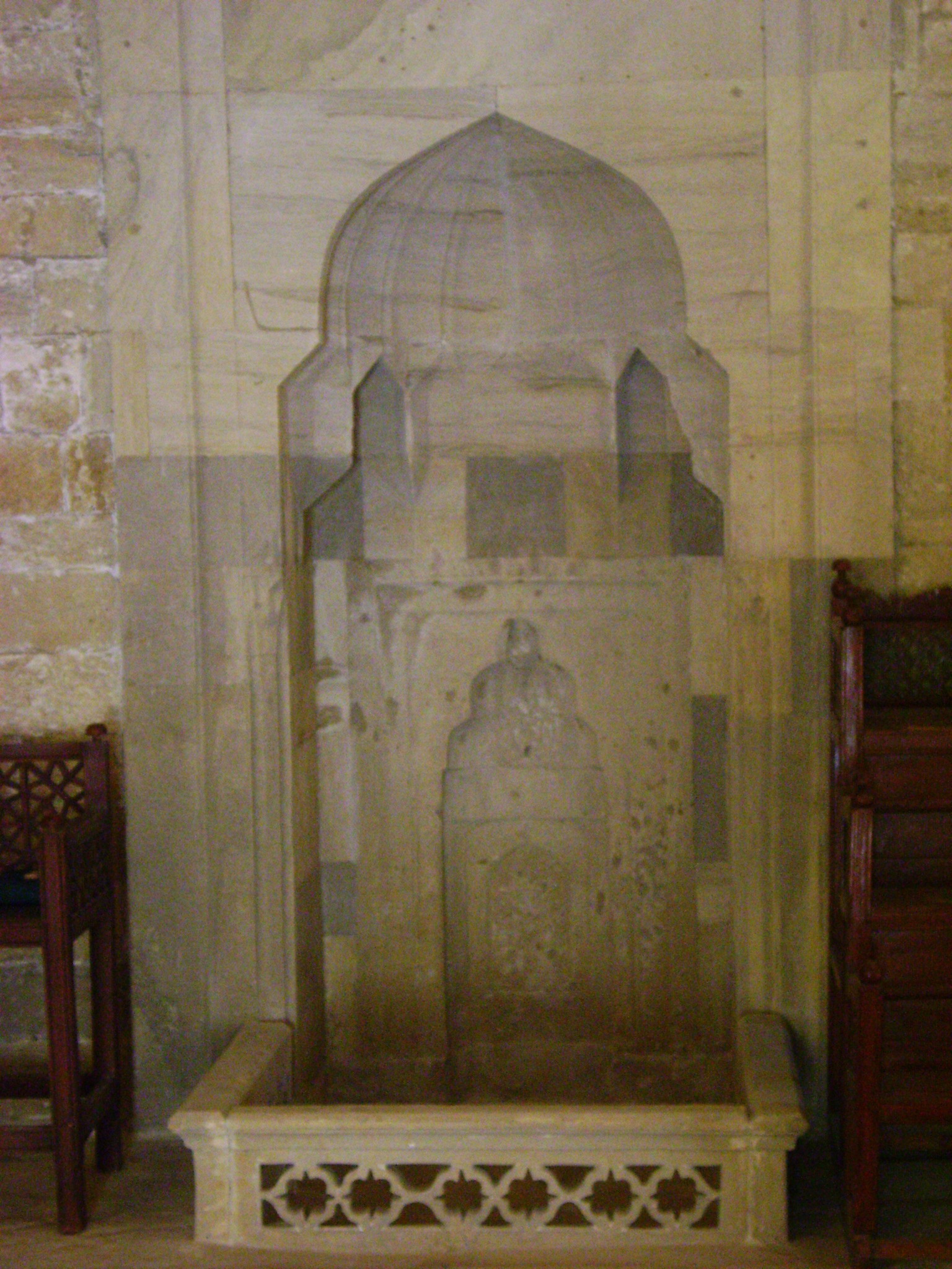 shirvanshakh_palace_old_city(baku)_azerbaijan_8-18centuries - shahs-khans_mosque_shirvanshahs_palace_built_in_1141_baku_azerbaijan